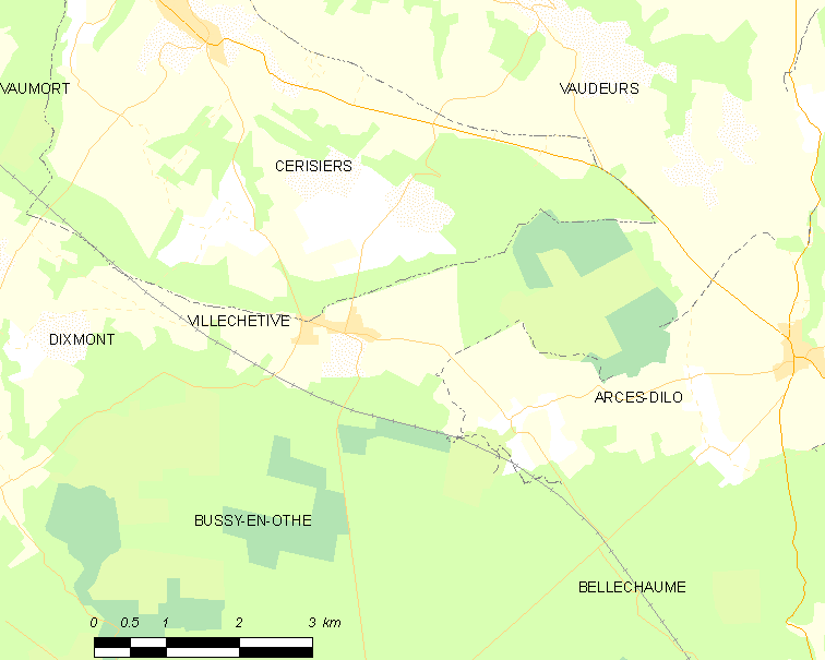 Map of French municipality Villechétive